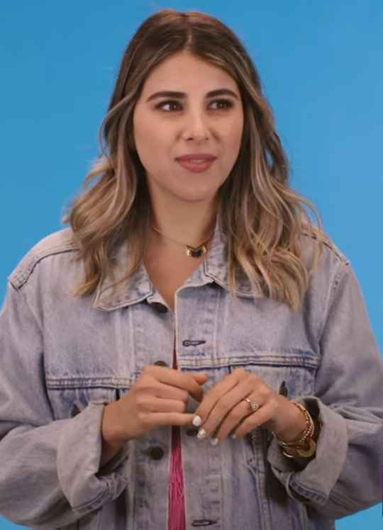 Beyoncé or SpongeBob? Kanye or TMNT? Join Kel Mitchell, Nathan Kress, Devon Werkheiser, Josh Server, Meagan Good, James Maslow, Daniella Monet, and Anthony Padilla as they guess if quotes are from their favorite cartoon characters or musical superstars!